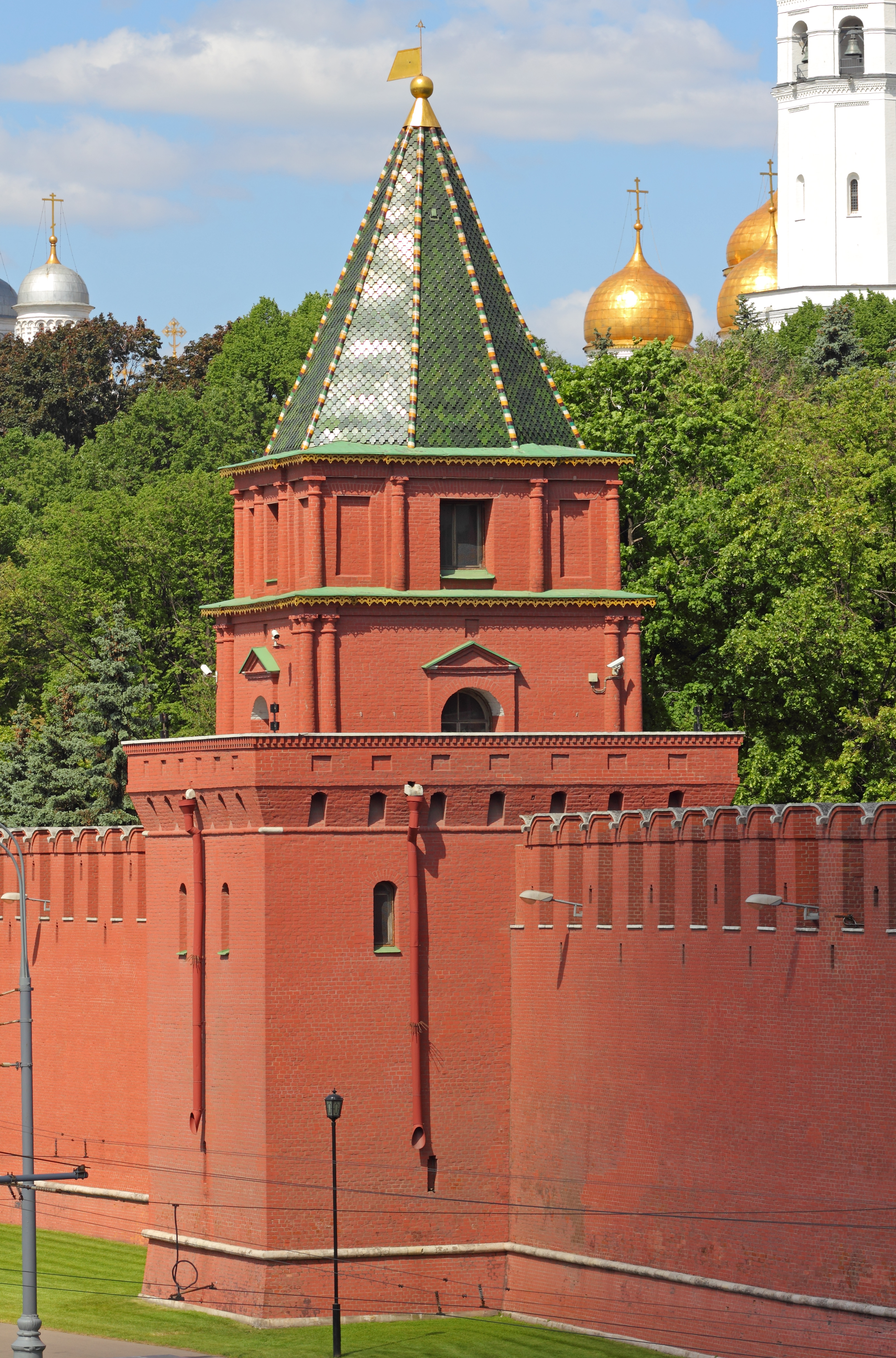 Moscow, Russia. Petrovskaya (Peter) Tower of the Moscow Kremlin.